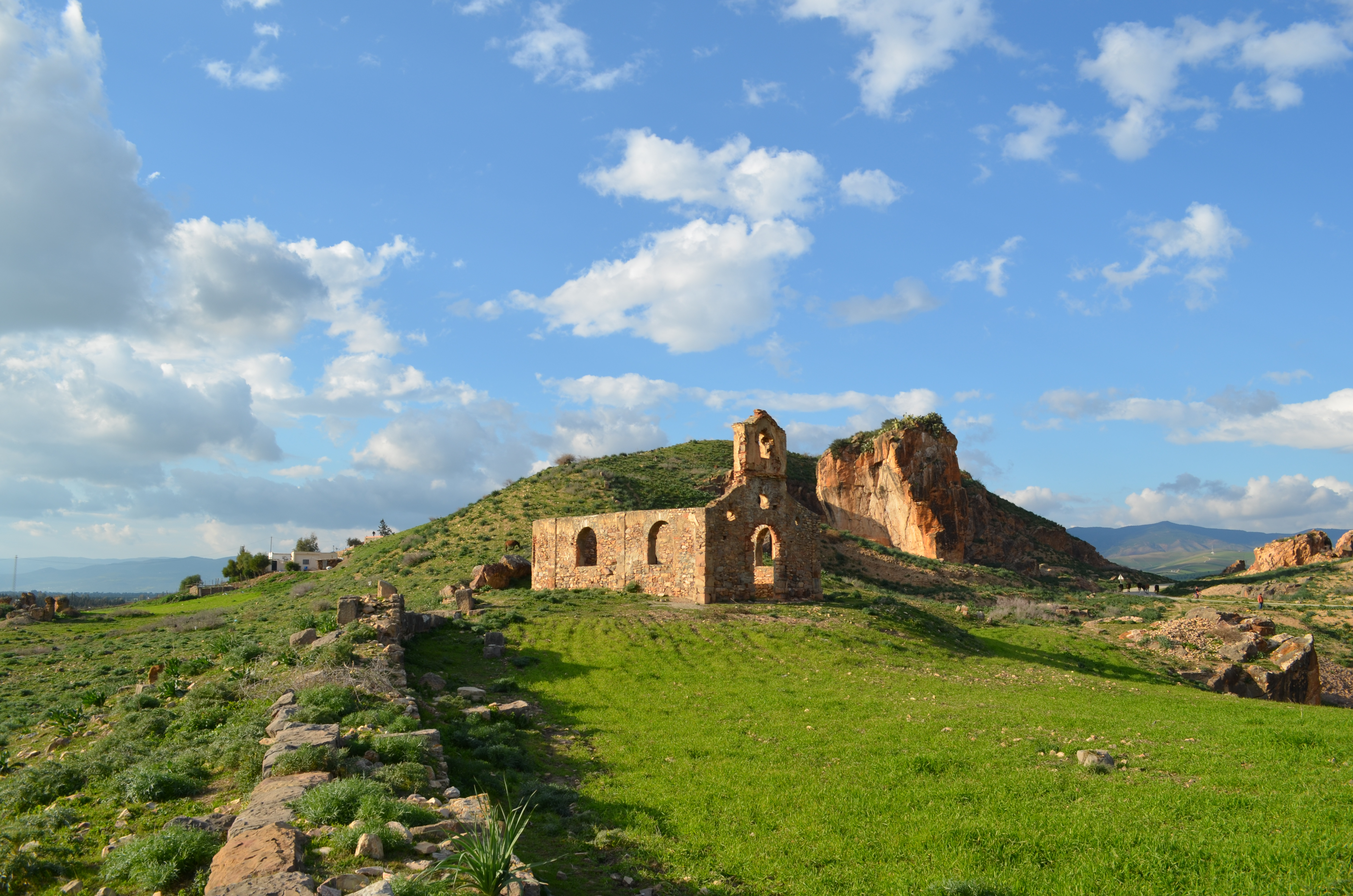 Ruins of a 19th century church in Chemtou, Tunisia